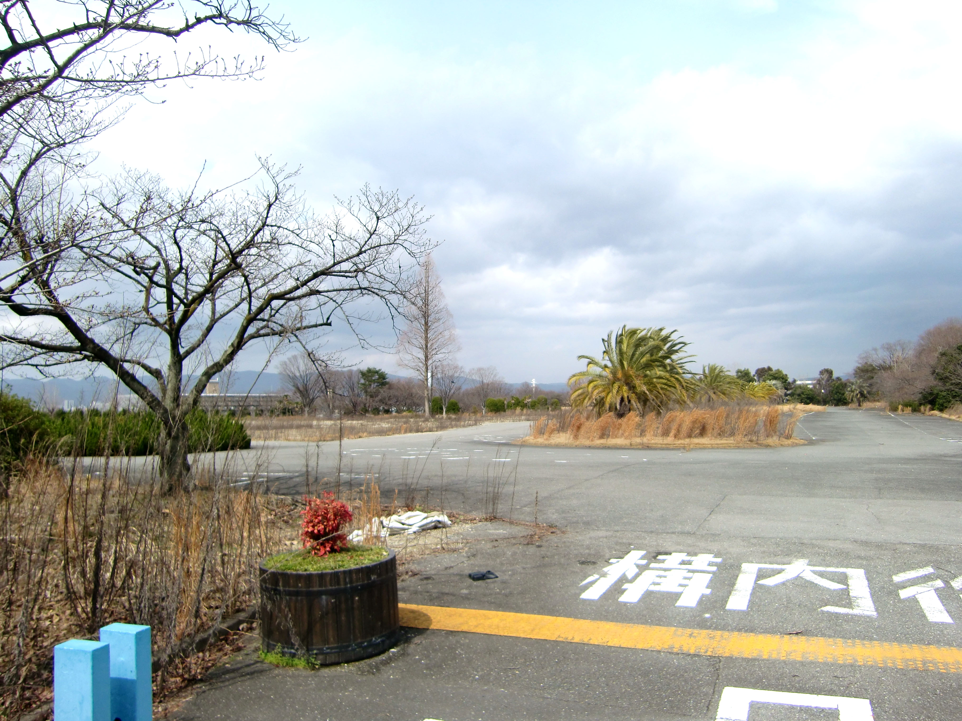 Senrioka Broadcasting Center,Senrioka-kita Suita-city Osaka Japan.